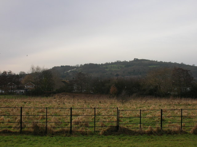 Gloucester, Robinswood Hill Robinswood Hill, photo taken from The Clock Tower Park, Abbeymead.